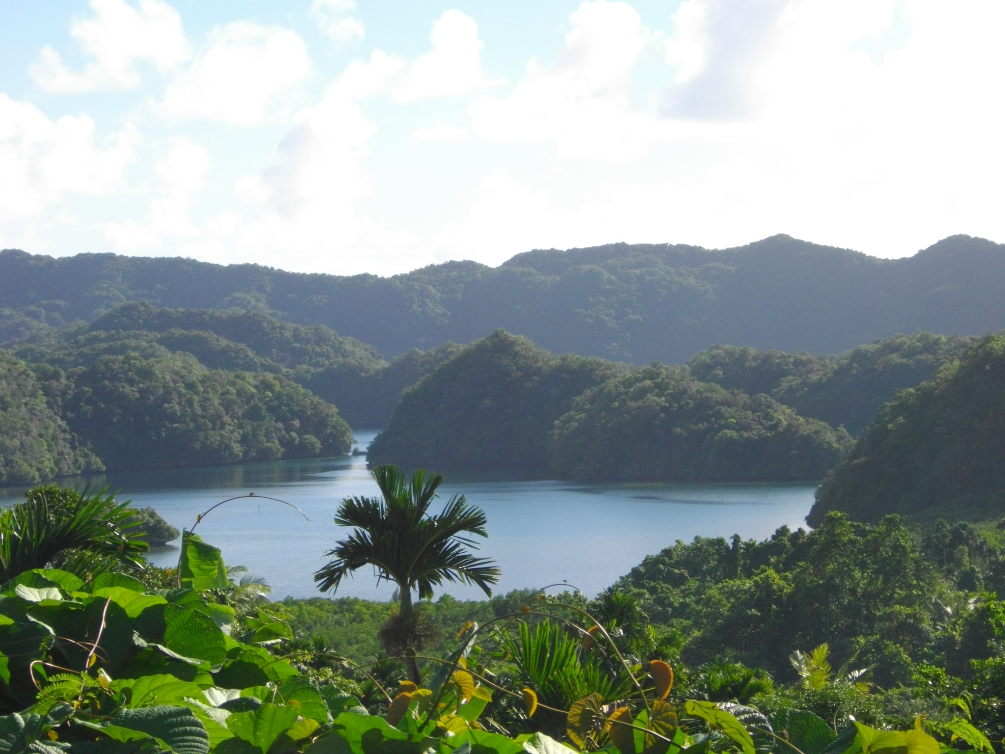 Iwayama Bay